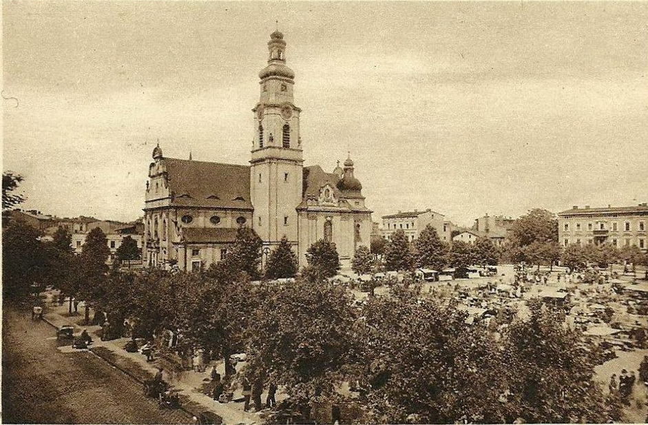 The square in 1917